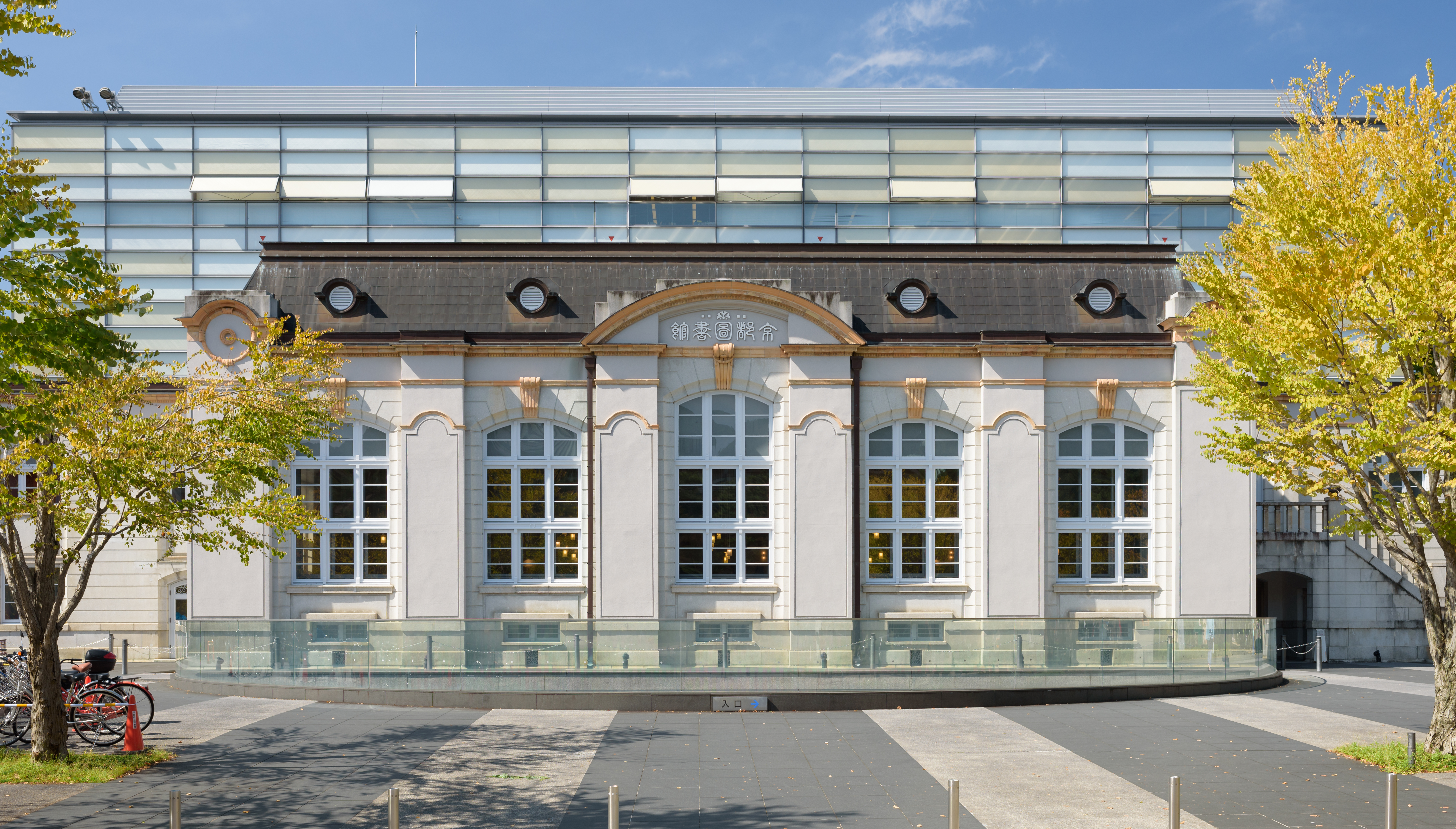 Kyoto Prefectural Library